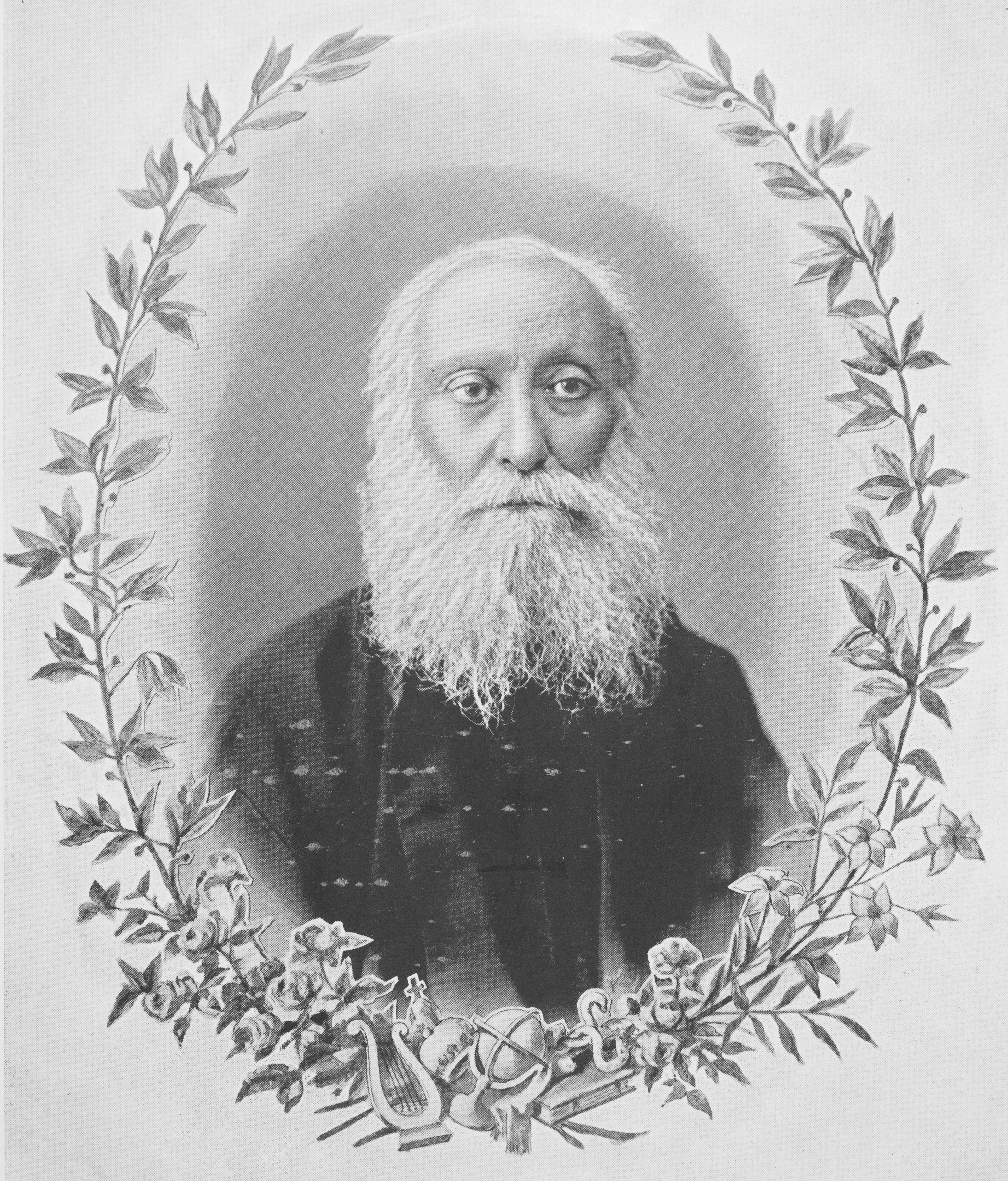 Portrait of Father Ghevont Alishan published in Alishan's 1901 book "Hayabadoom" (Հայապատում) -- which means "Armenian history".